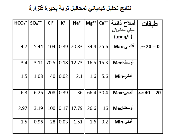 نتائج تحليل كيميائي لمحاليل تربة بحيرة فتزارة